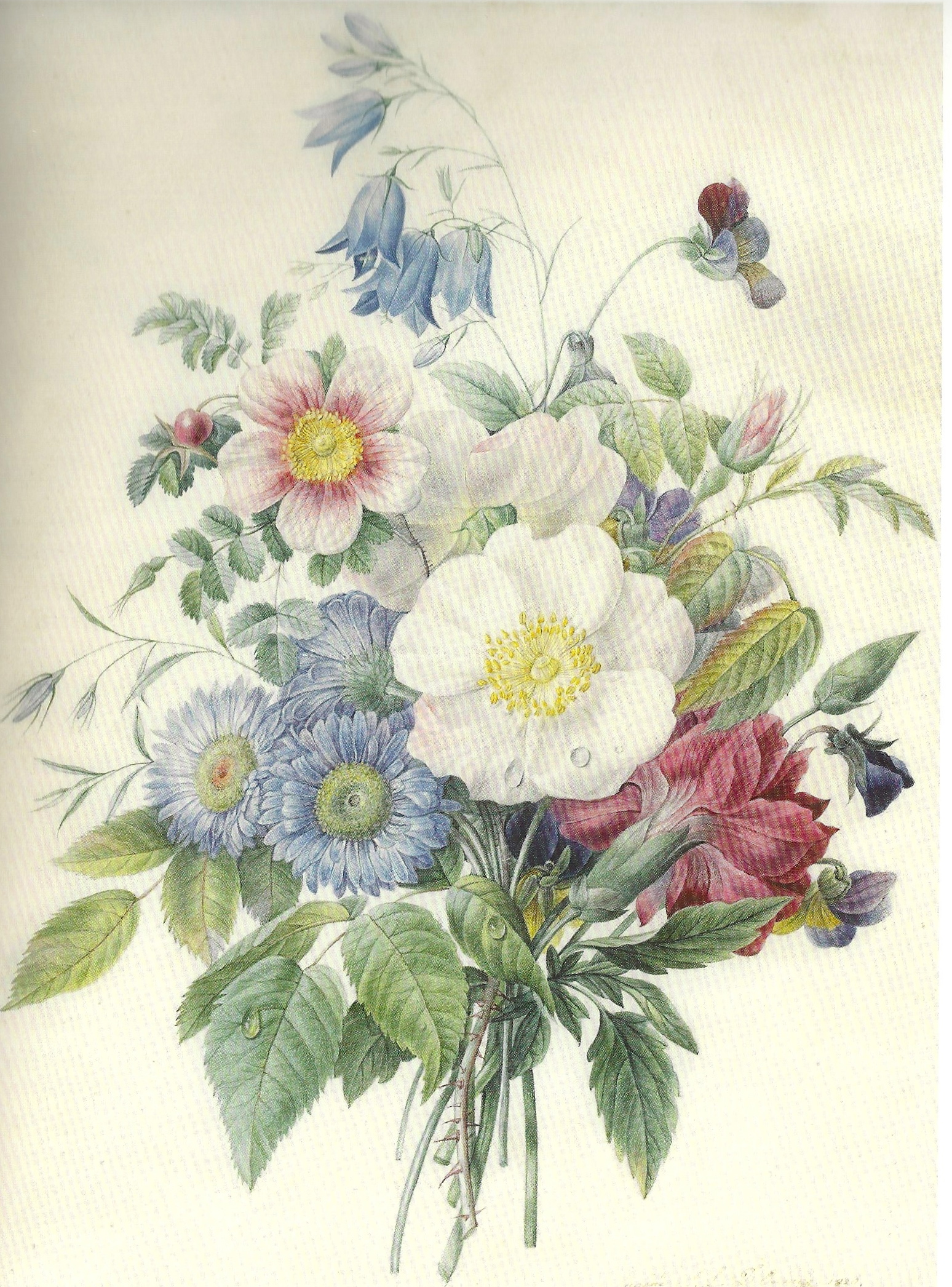 Collection of summer flowers by Princess Adélaïde of Orléans (1777-1847)